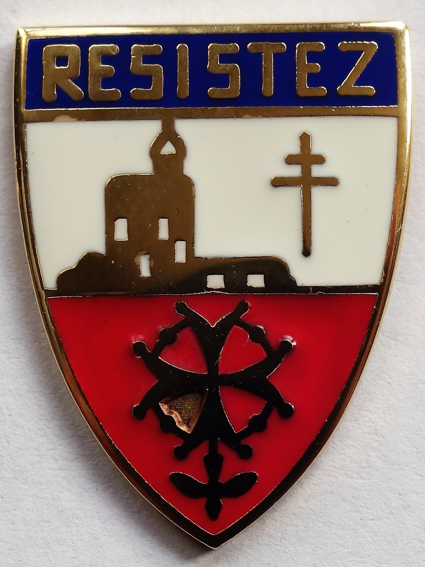 Emblem "Resist" designed by pastor Frank Christol of the French Protestant Church of London, 1942 version